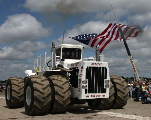 The world's largest farm tractor (largest regarding hp), the Big Bud 747 (16-V 747), built in 1977Dansk: Big Bud 747 - Verdens største landbrugstraktor (flest hestekræfter) bygget i 1977.